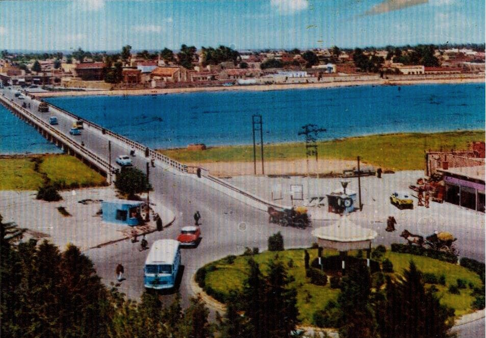 Kirkuk City in 1970 in Iraq